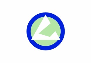 Flag of Mutsuzawa Chiba